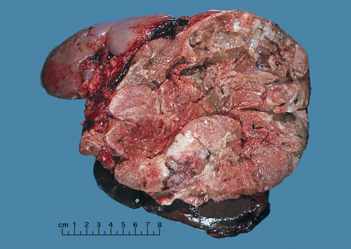 ADRENAL GLAND: LARGE ADRENAL CORTICAL CARCINOMA This large adrenal cortical carcinoma was resected from a 27-year-old female. The tumor measured 17 cm in diameter and invaded kidney and spleen which necessitated en bloc removal of these organs with tumor. Patient had evidence of virilization.